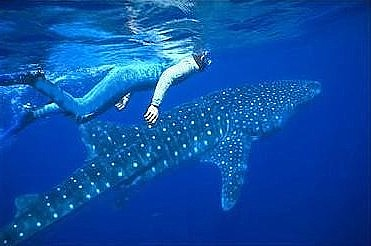 Walheie bei Phi Phi Island, Thailand, March 2005